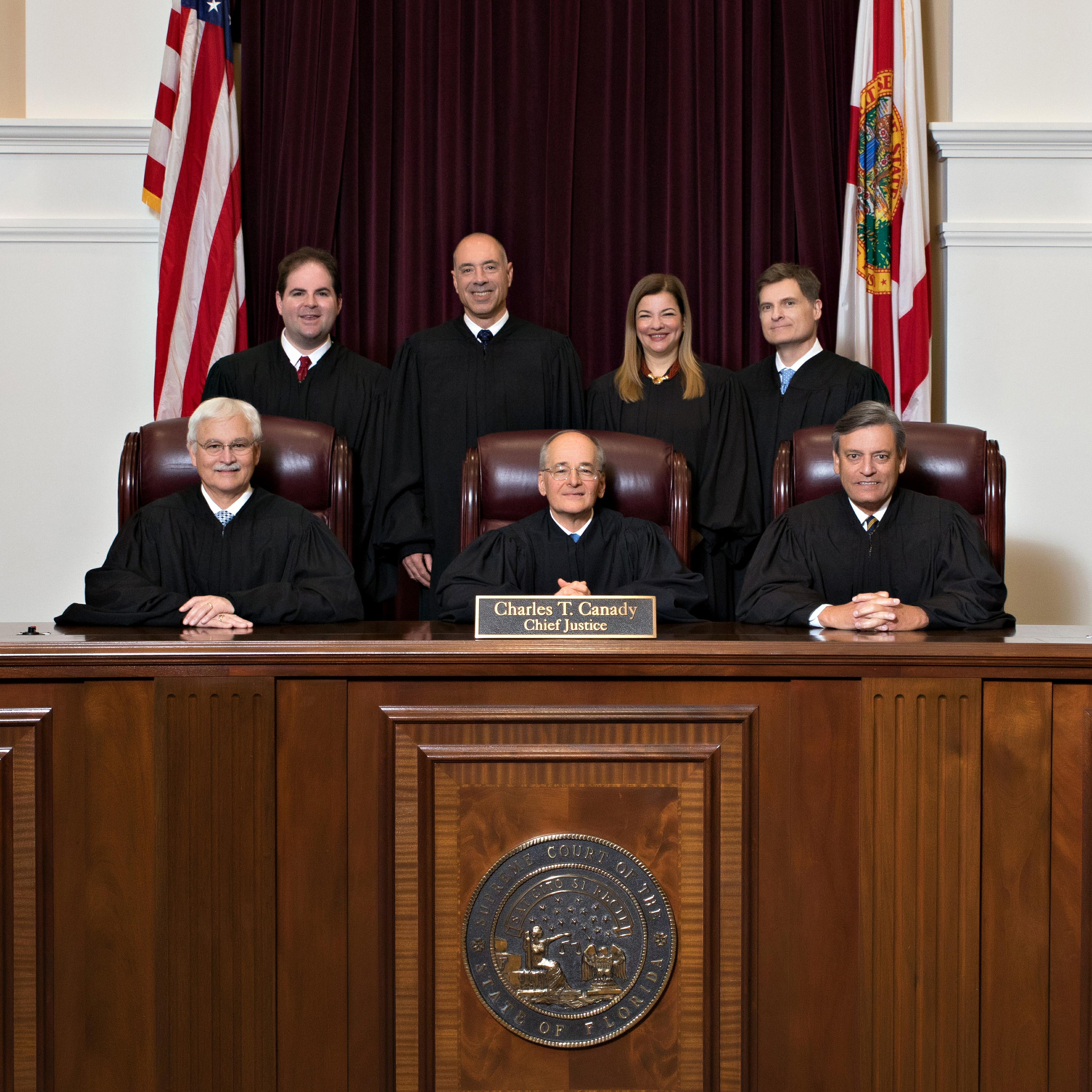 The Florida Supreme Court under Chief Justice Charles Canady after the appointment of three new Justices by Gov. Ron DeSantis.